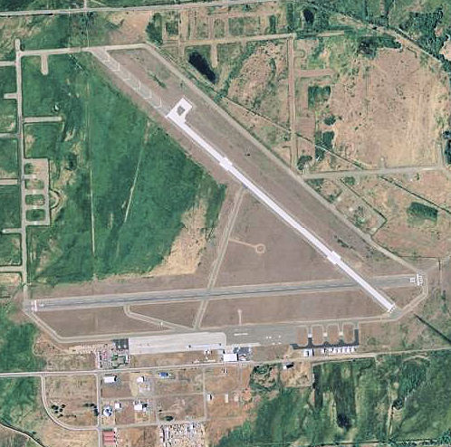 USGS digital orthophoto of Bowers Airport in Washington